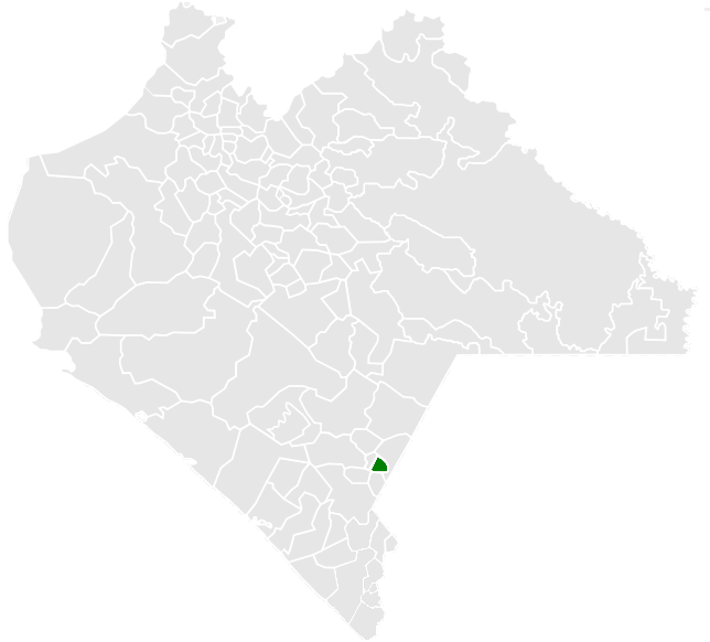 Map of the Municipalty of Bejucal de Ocampo in the State of Chiapas, México.